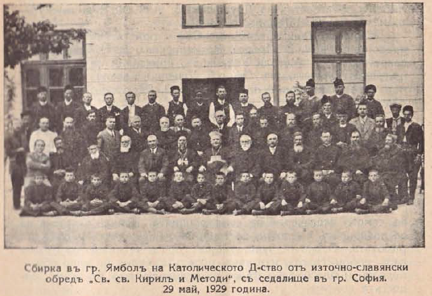 Eastern Catholic Conference of Catholics in Bulgaria took place in Yambol on May 29, 1929.